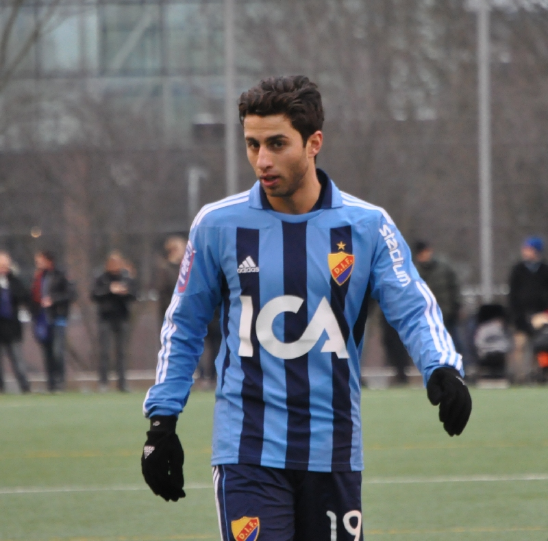 Nahir Oyal playing for Djurgården versus Sirius at a pre-season game at Stadshagen, Stockholm in 28th January 2012.